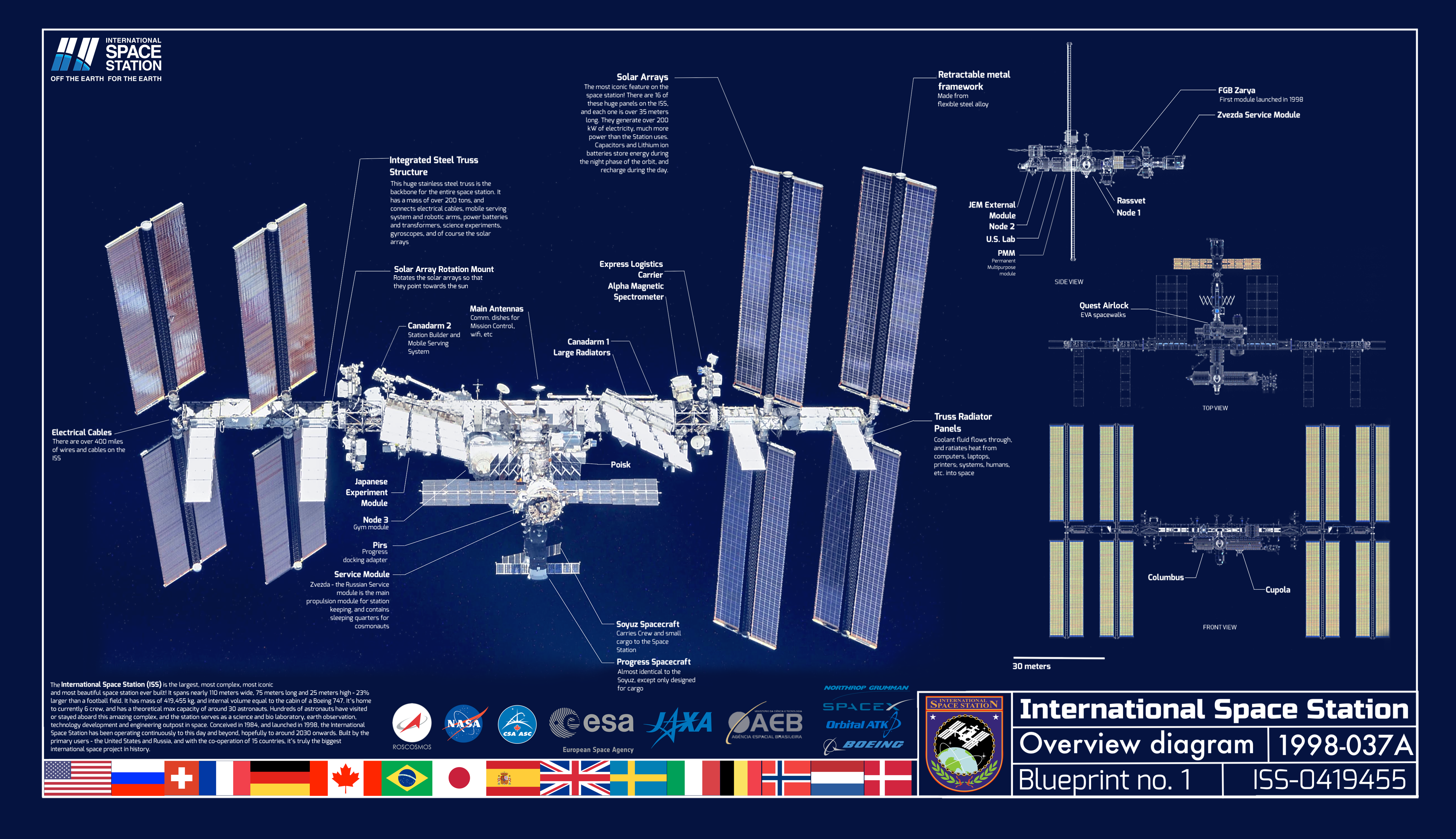 A blueprint-like diagram of the International Space Station and its components